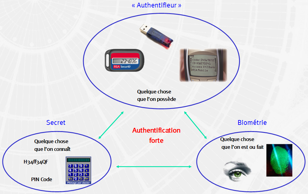 Two-factor authentication definition